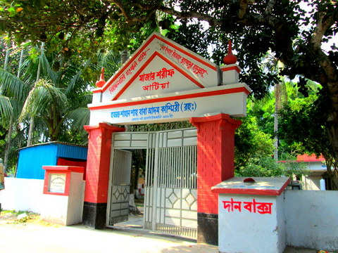 Ali shan sa baba Adom kashmiri R